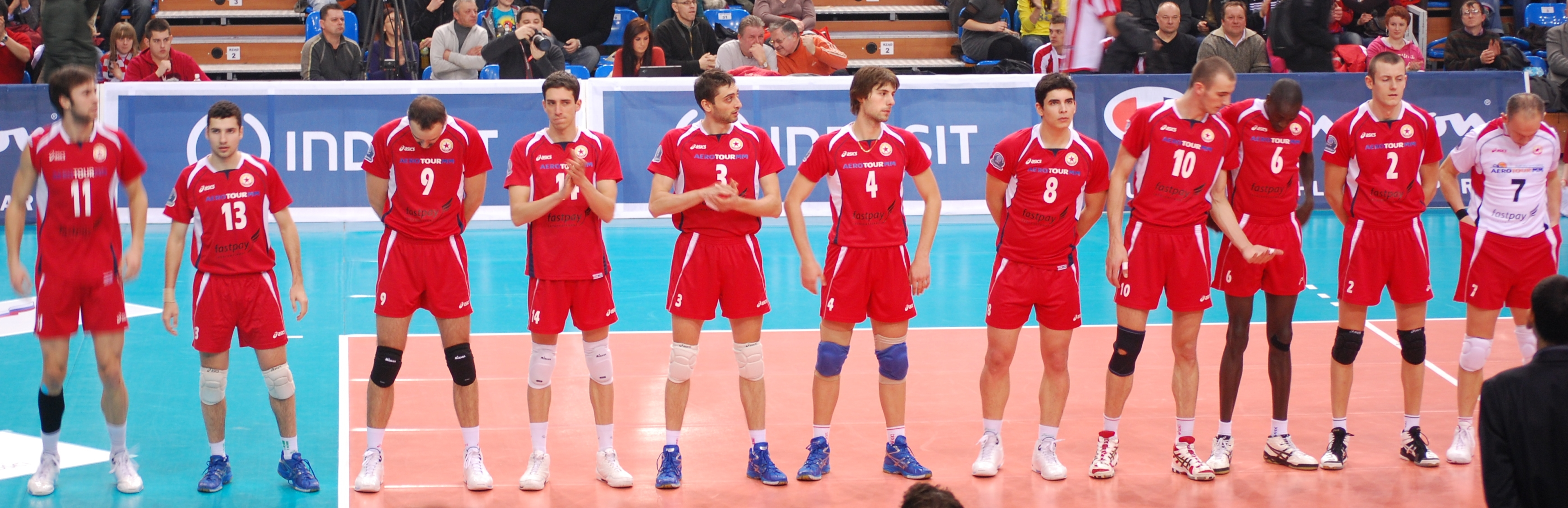 CSKA Sofia volleyball